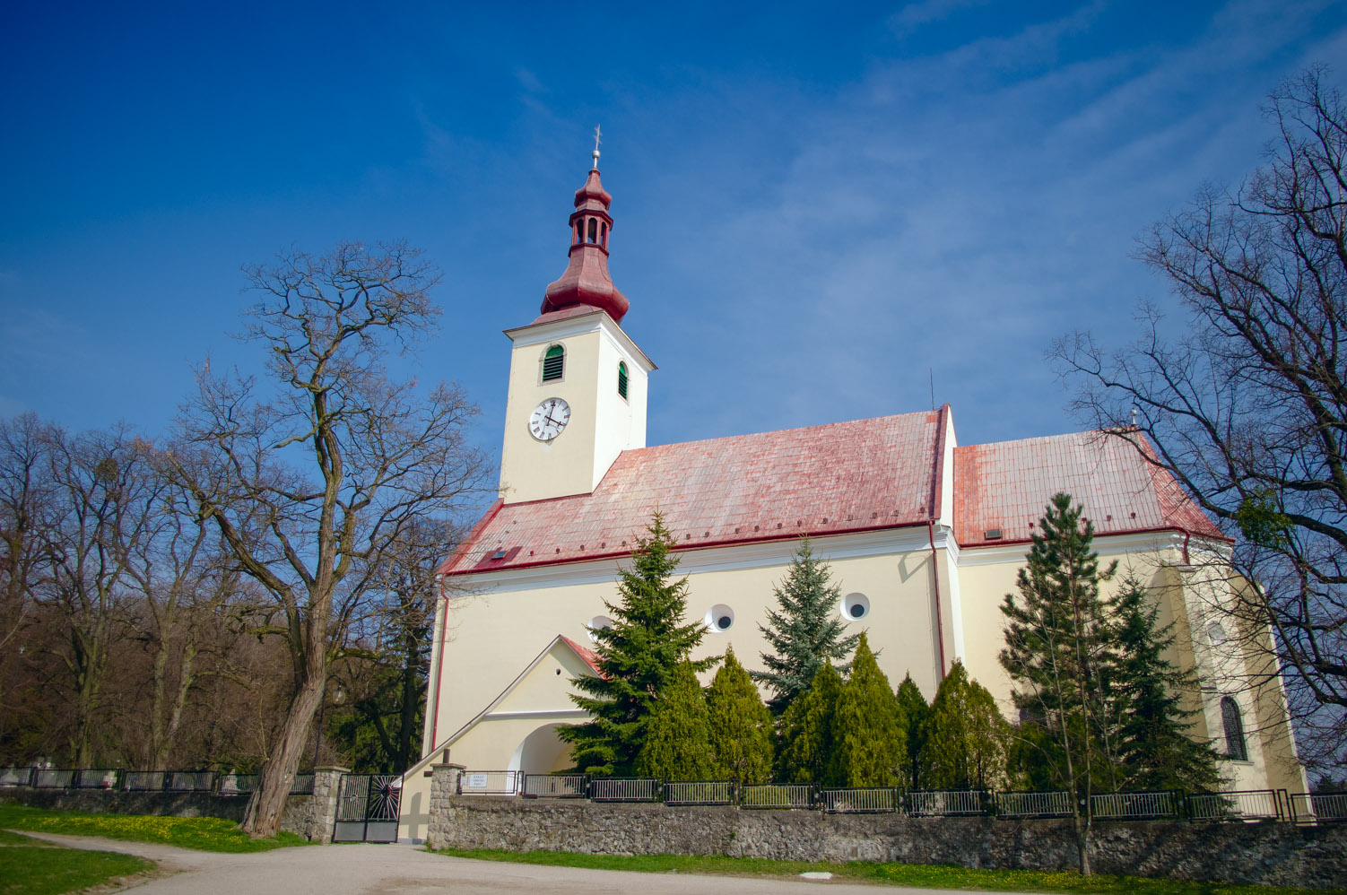 Church in Smolenice, Slovak Republic.